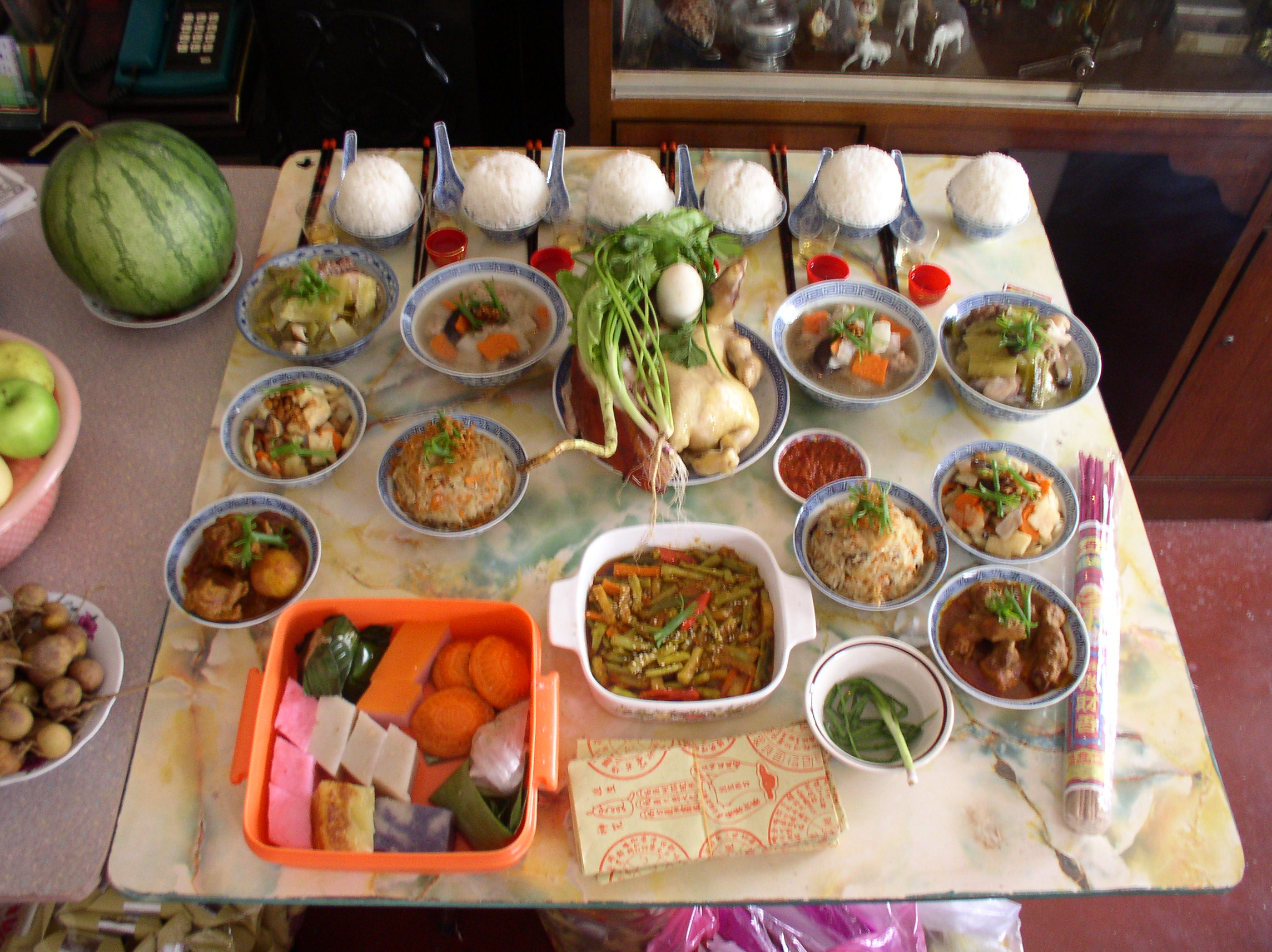 Food is offered to the ancestors during the annual Hungry Ghost festival prayers. Thailand only. Food is offered to the ancestors during the annual Hungry Ghost festival prayers. Thailand only.